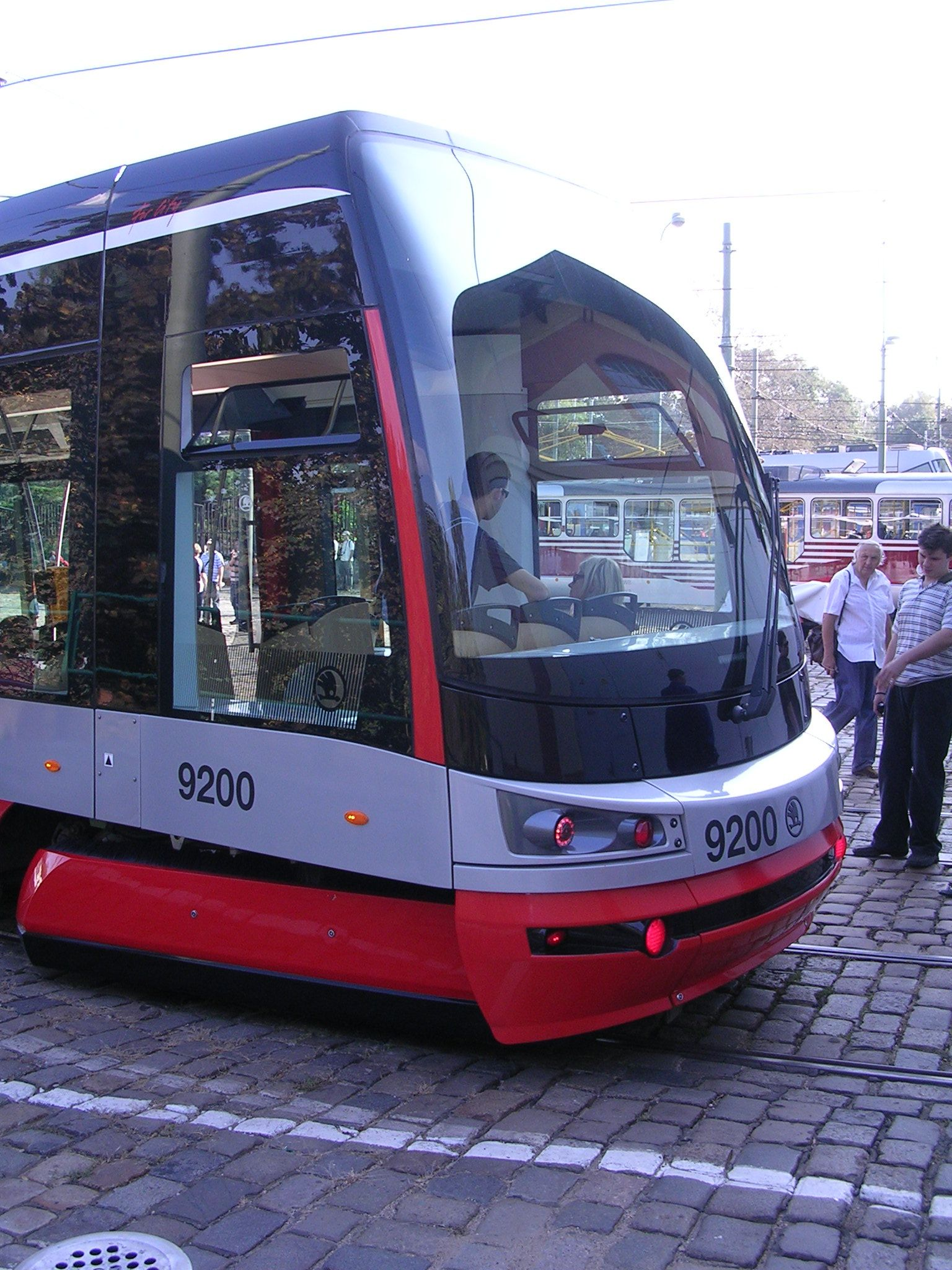 Střešovice, Prague, the Czech Republic. Open Doors Day in Střešovice tram depot and transport museum. Tram Škoda 15T. - Google Maps - Google Earth